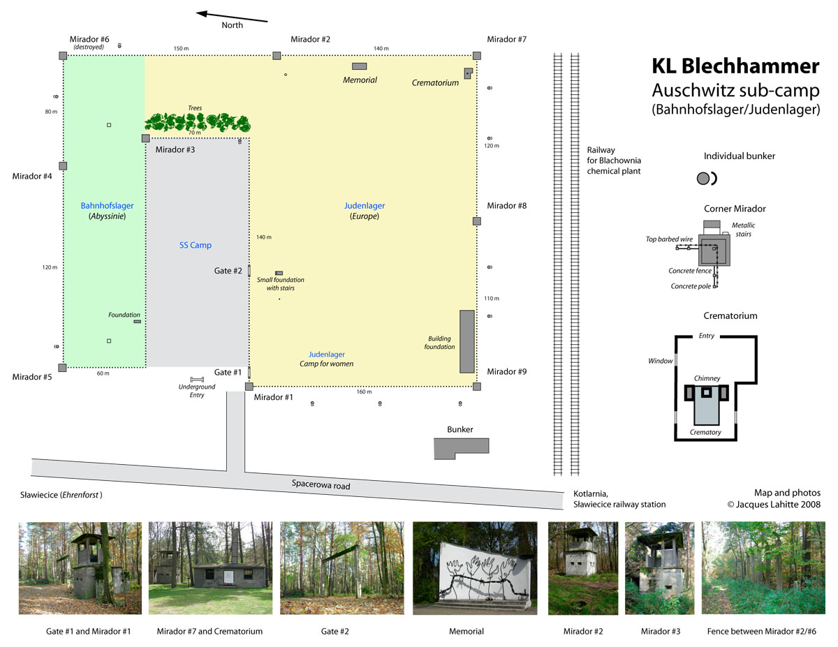 Map of the former Auschwitz sub-camp Judenlager of Blechhammer in Blachownia (High-Silesia, Poland). This map depicts the actual topology of the remaining camp.